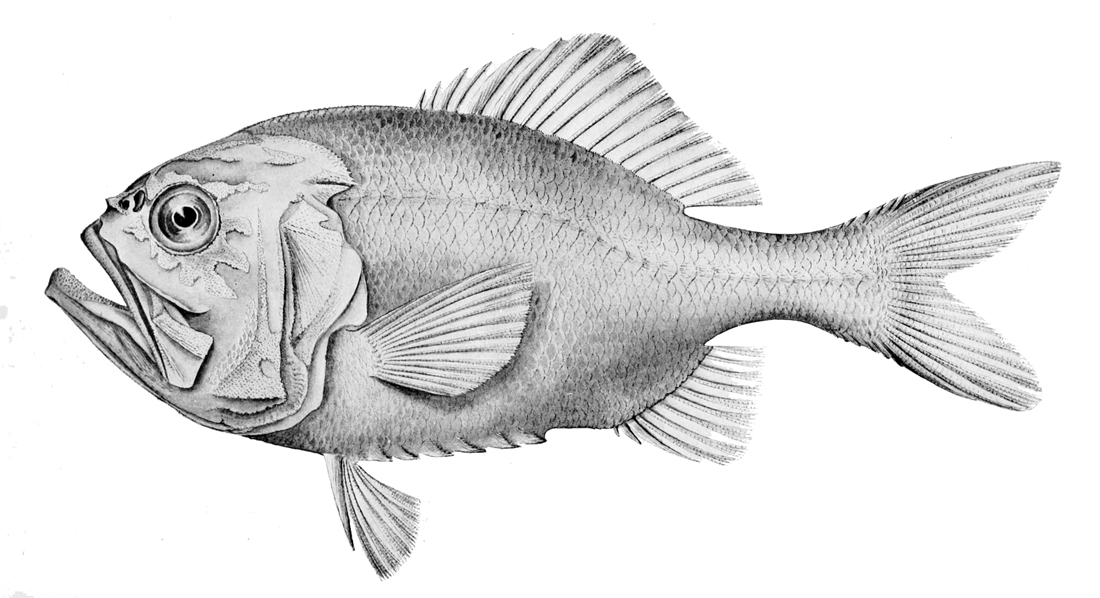 Hoplostethus gigas